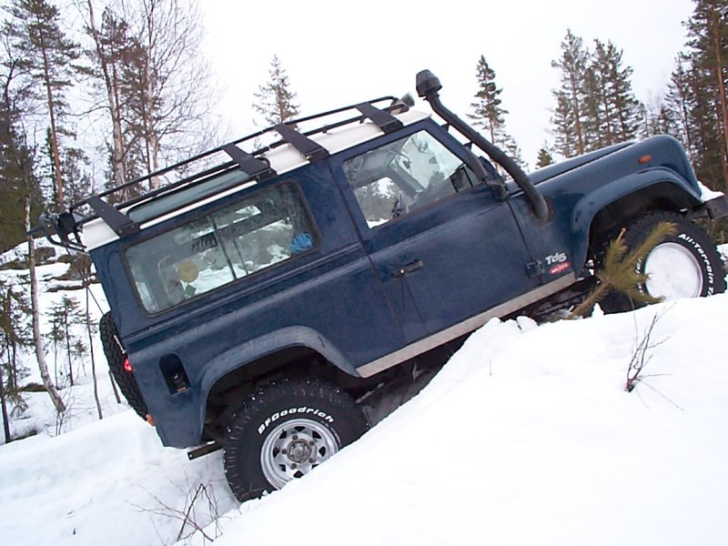 Description A 1999 Land Rover Defender 90 Td5 climbing over a snowy hill in the Norwegian Land Rover Club's driving area in Lampeland, Norway Source Own photograph Photographer Harald Hansen